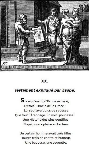 Scan of an original edition on Wikisource after modernized typography button usage